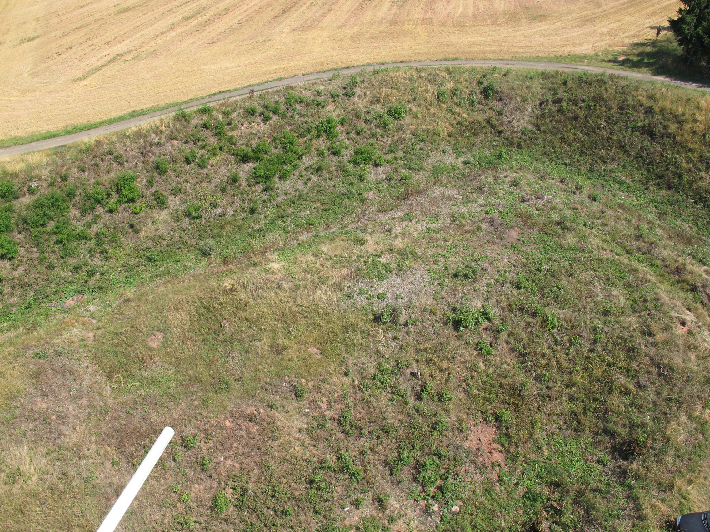 Moat of Got Lost Castle in Kryry (Czech Republic) from Observation Tower